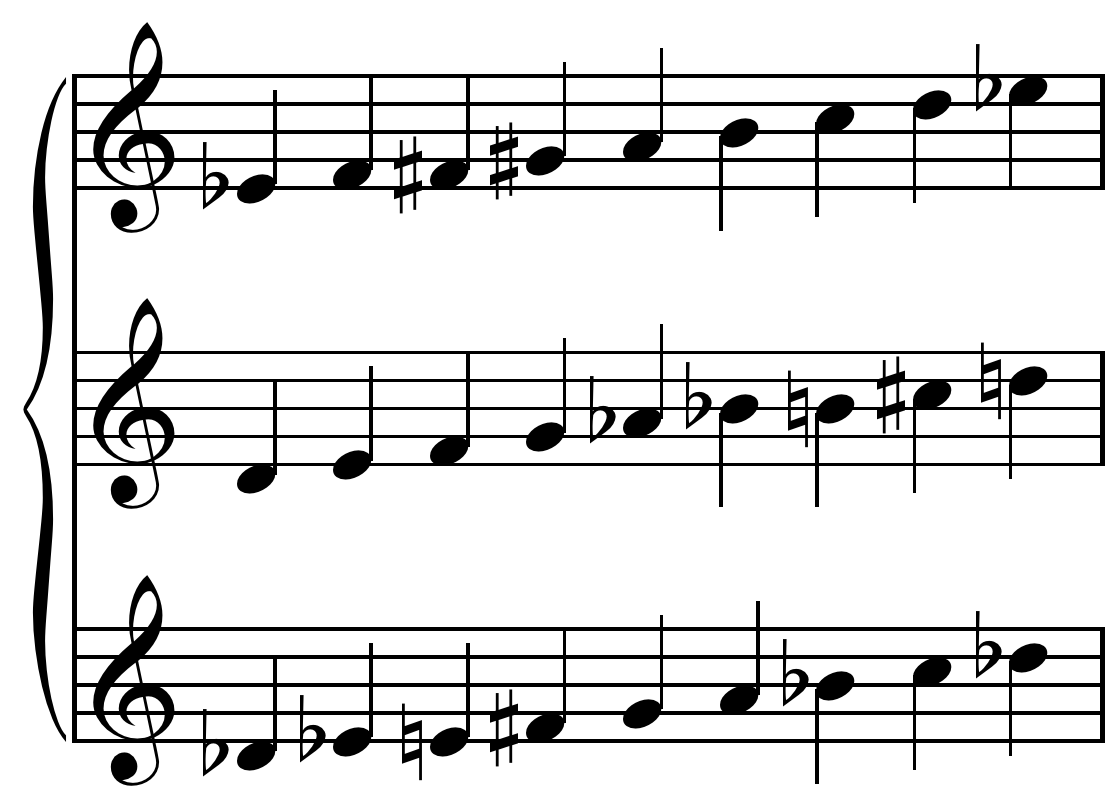 Diminished scales on Db, D, and Eb. Created by Hyacinth using Sibelius and Paint.